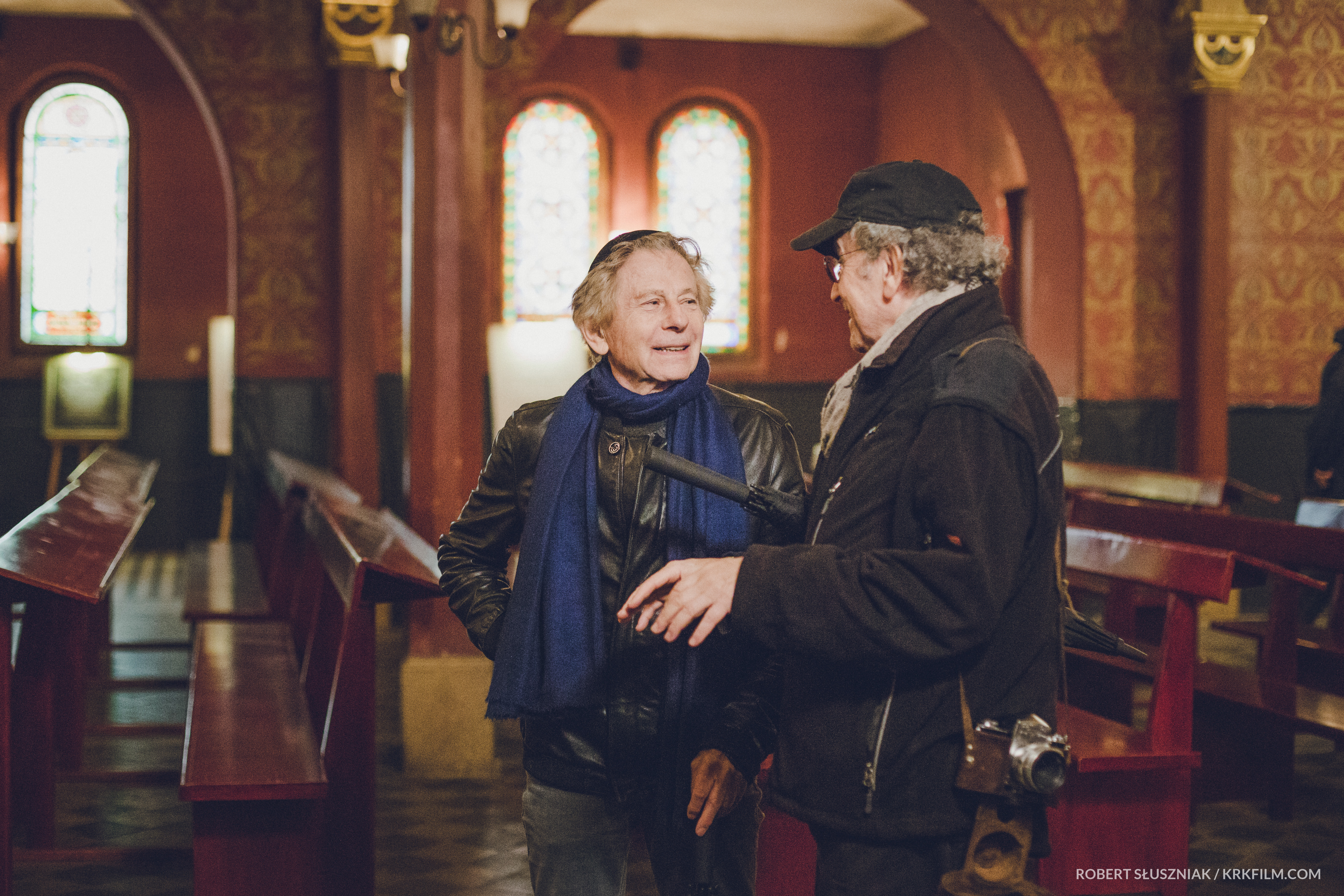 Roman Polanski and Ryszard Horowitz on the set of "Polanski, Horowitz. The Wizards from the Ghetto" (dir. Mateusz Kudla, Anna Kokoszka-Romer). Photo by Robert Sluszniak (KRK FILM)